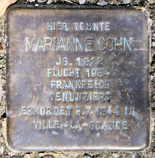 "stumbling block", Marianne Cohn, Wulfila Ufer 52, Berlin-Tempelhof, Germany